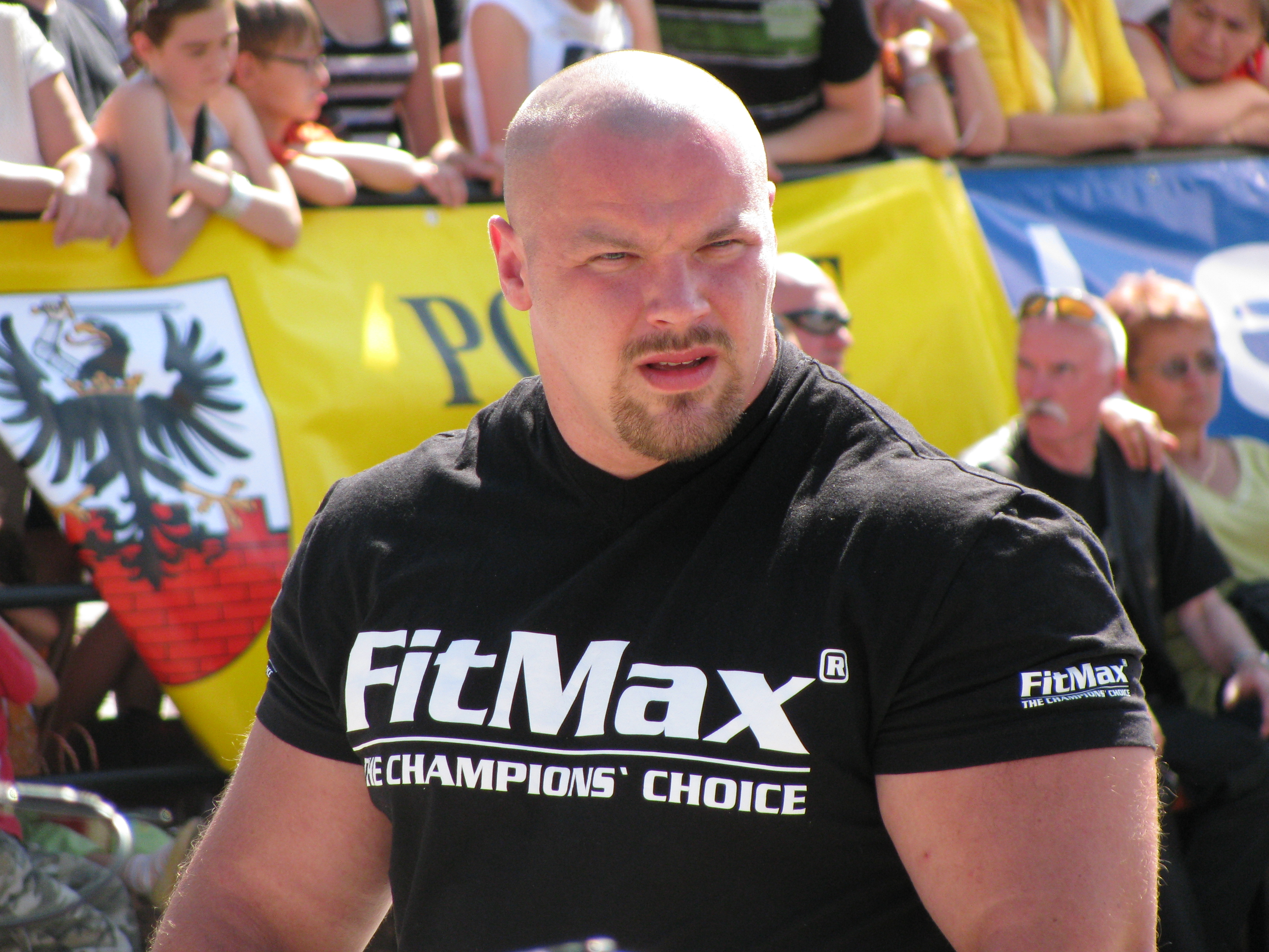 Michal Szymerowski - a strength athlete from Poland